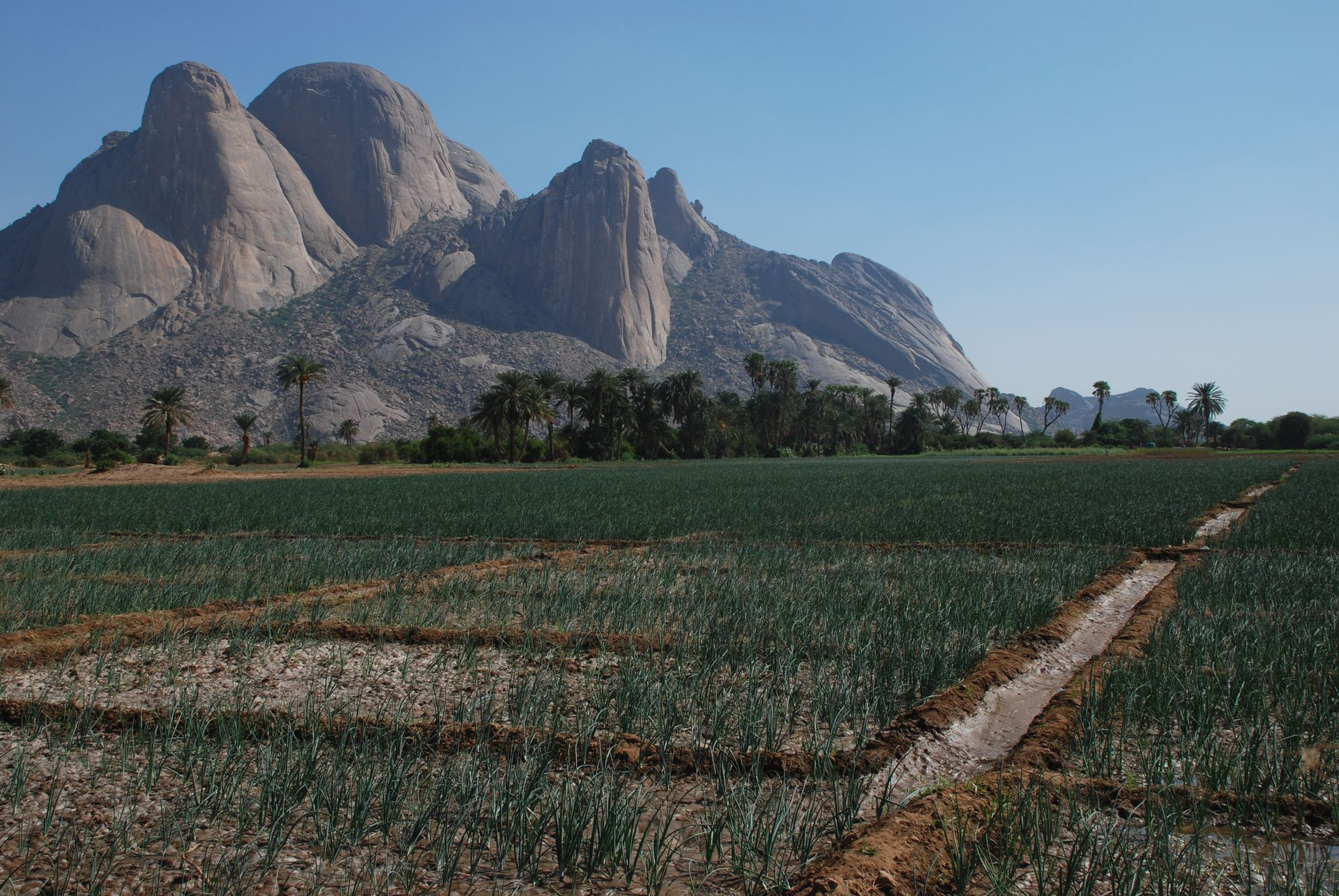 Granitic domes of the Taka Mountains, with Totil Mountain, and onion fields below - Kassala, Sudan.